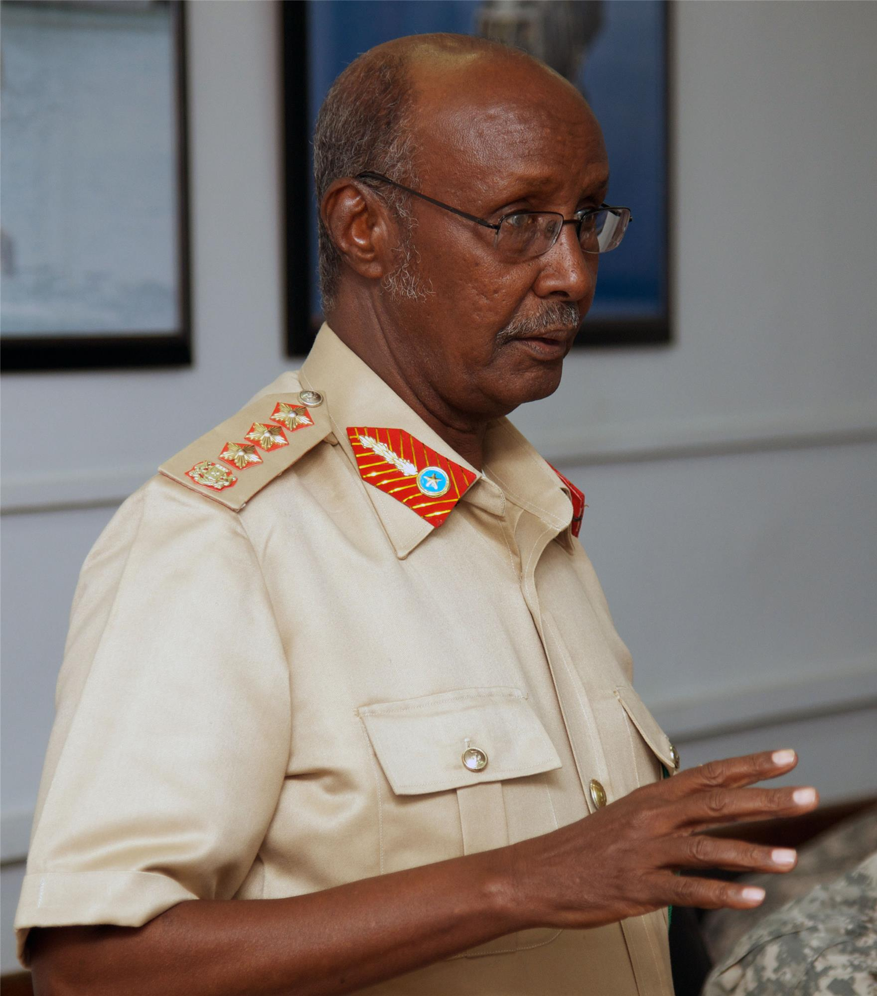 Gen. Dahir Adan Elmi, the chief of defense for Somali armed forces, speaks to officers with Combined Joint Task Force-Horn of Africa (CJTF-HOA) as Maj. Gen. Terry Ferrell, Commander, CJTF-HOA, listens during a meeting held at Camp Lemonnier, Djibouti, May 29, 2013. The generals met to improve cooperation and develop a foundation for a more formalized military-to-military relationship between their two countries.